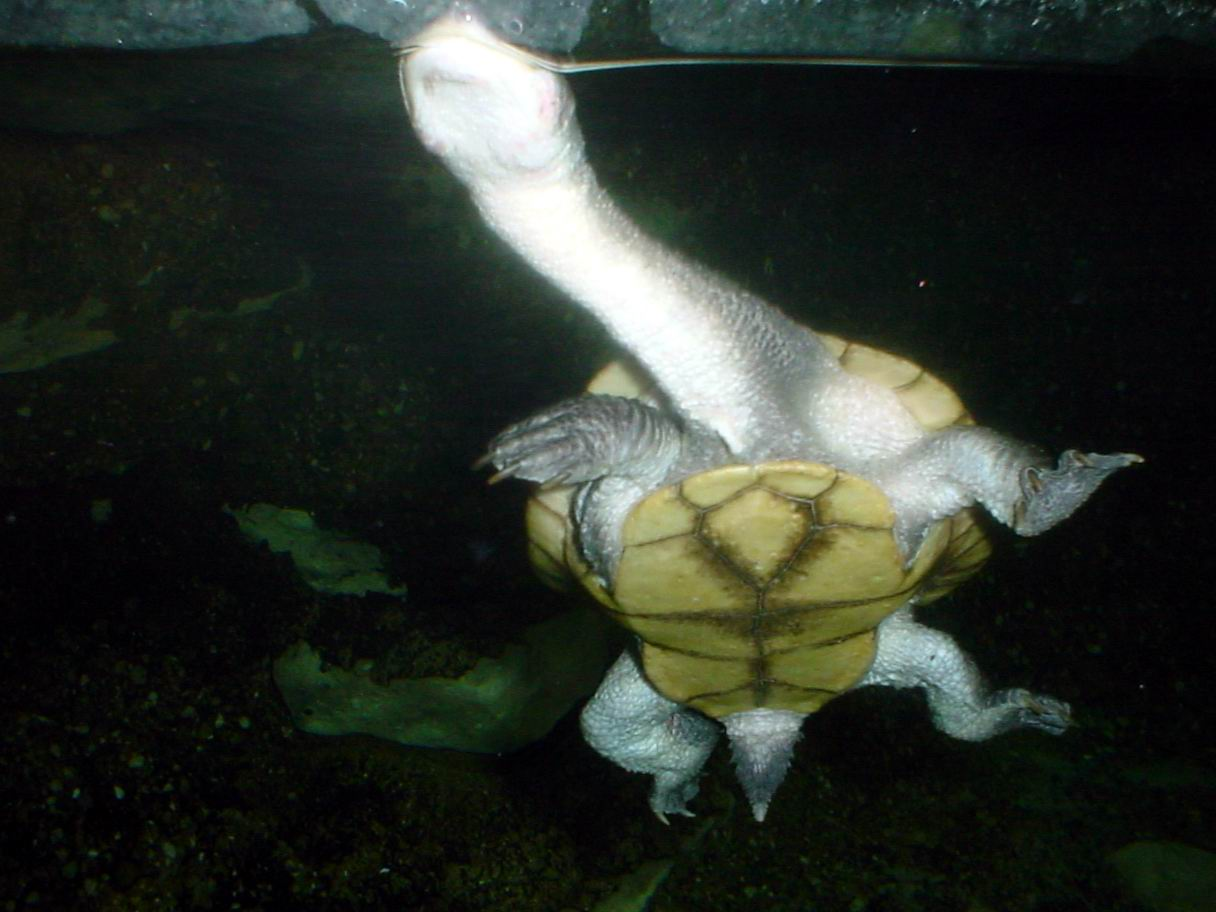 Roti Island Snake-necked Turtle (Chelodina mccordi) at the Columbus Zoo and Aquarium, photographed March 5, 2009 by Adolphus79.